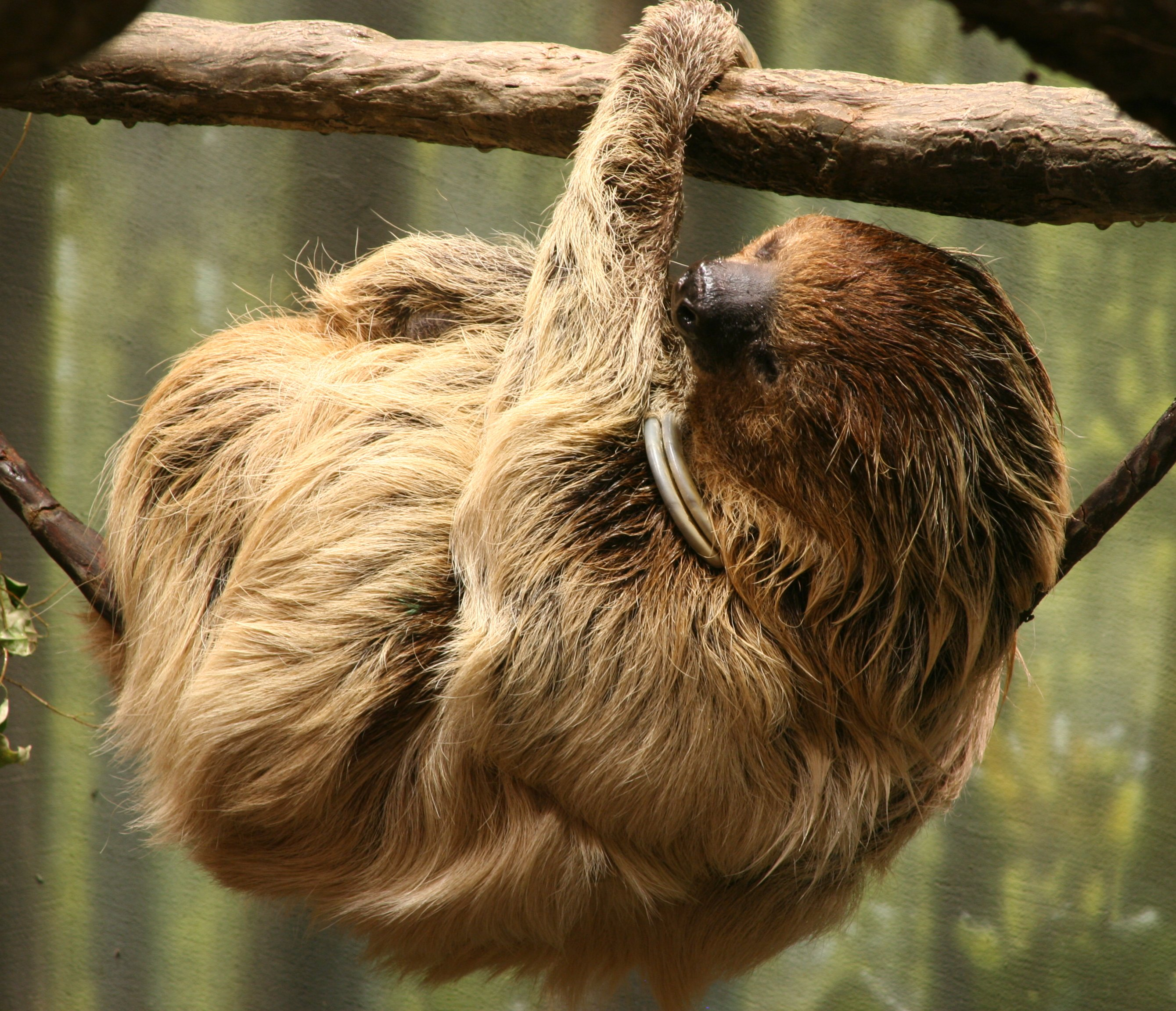 Linnaeus's Two-toed Sloth (Choloepus didactylus) at the Buffalo Zoo